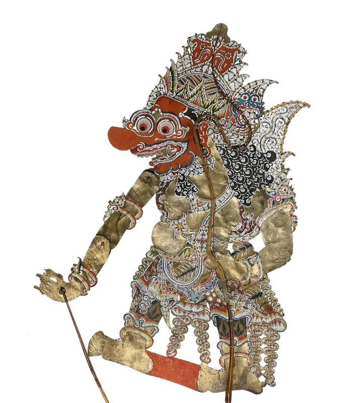 Wayang figure